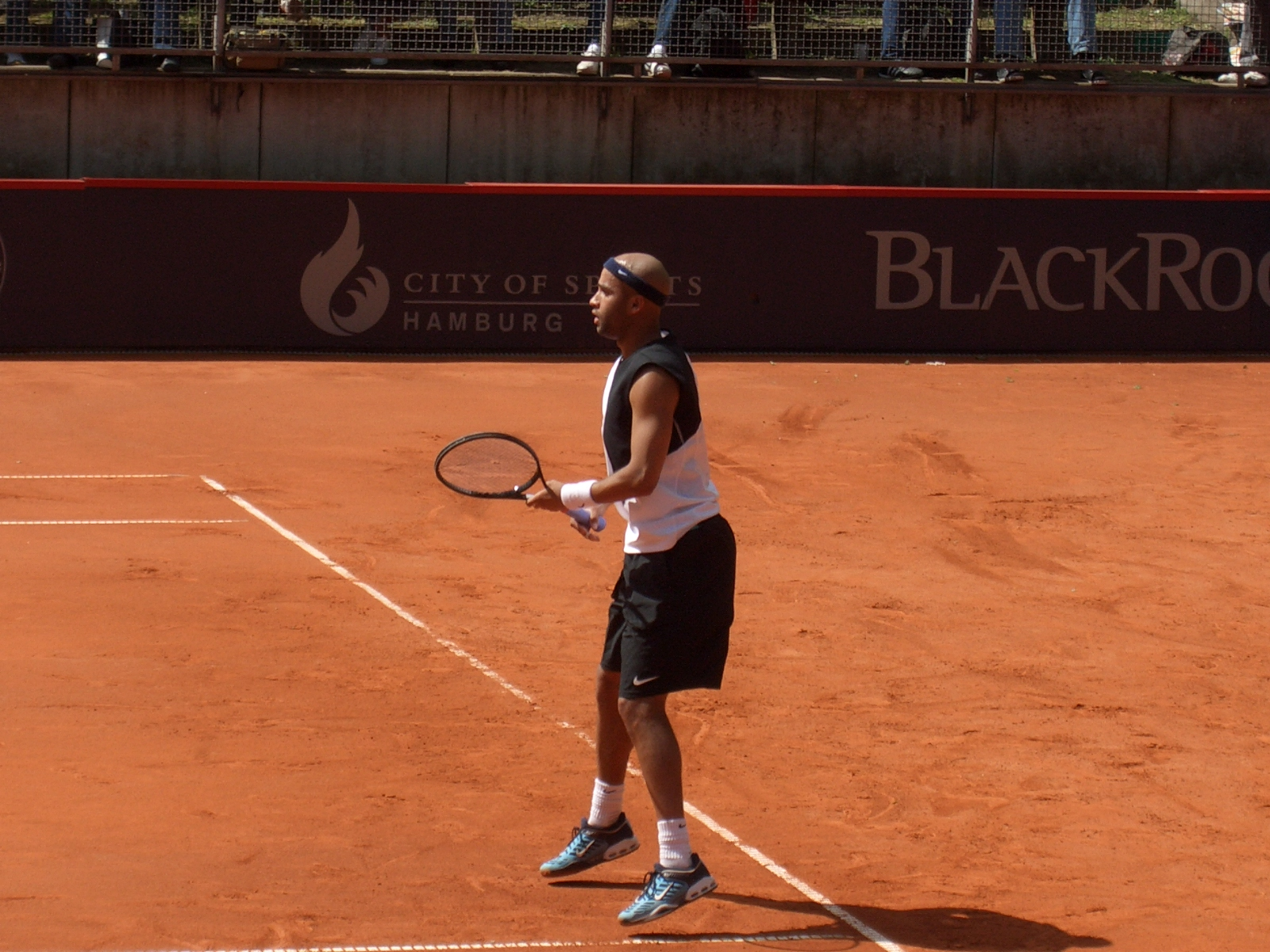 James Blake at the Hamburg Masters 2007, playing Carlos Moya